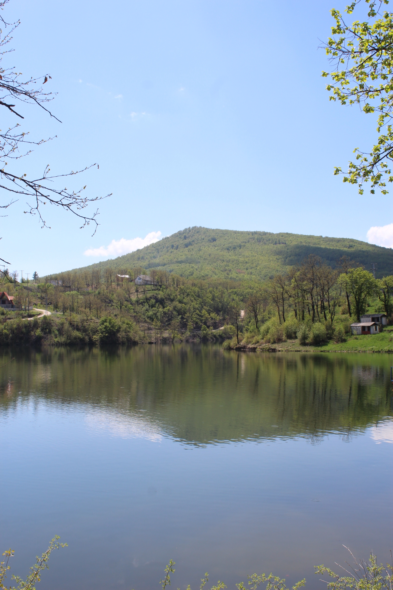 Paleovolcanic cone (or extinct volcanoe) Tilva Njagra. Srpski (latinica): Paleovulkanska kupa Tilva Njagra sa obale Borskog jezera.